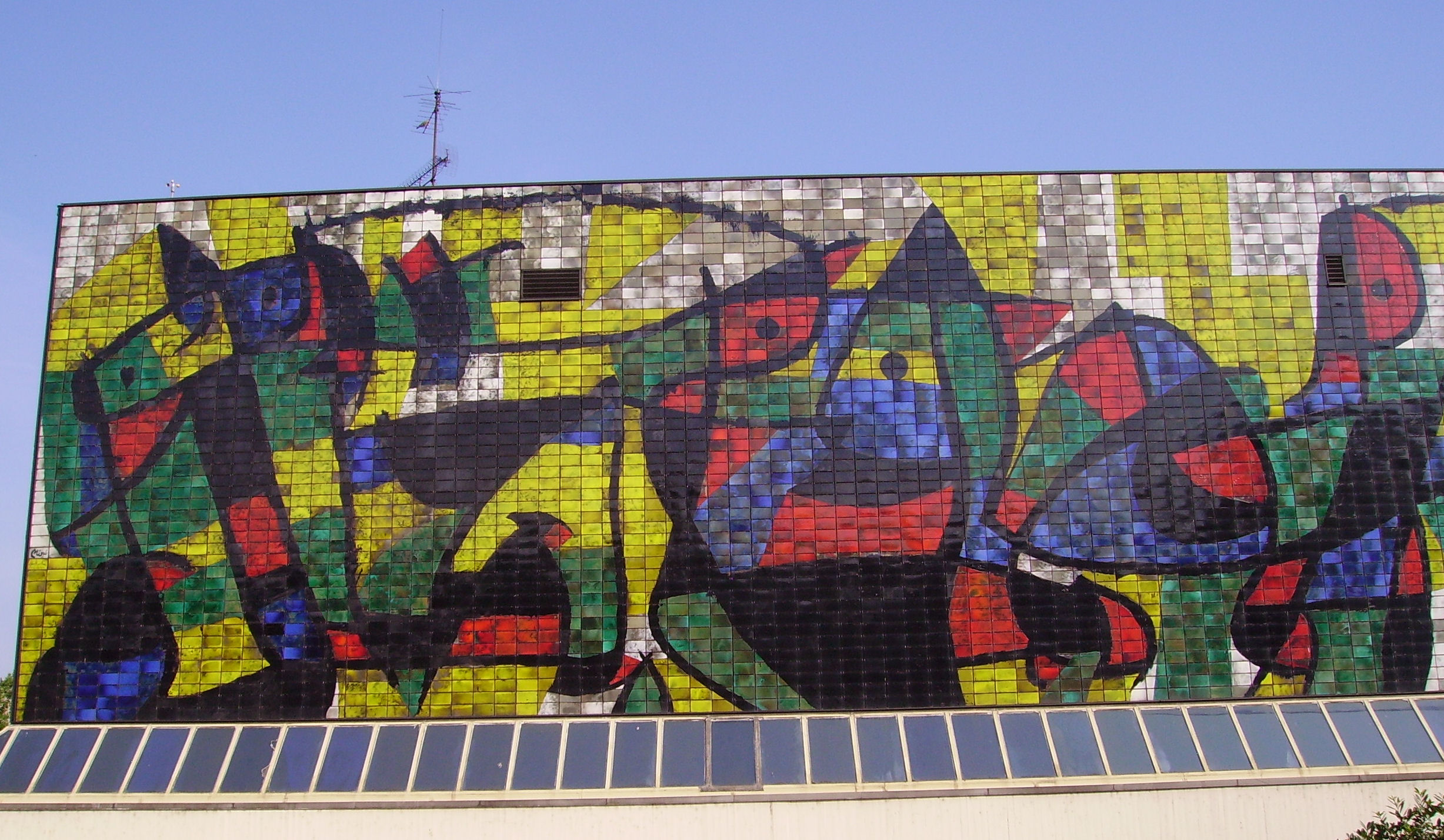 mural of Joan Miró in Ludwigshafen, Germany